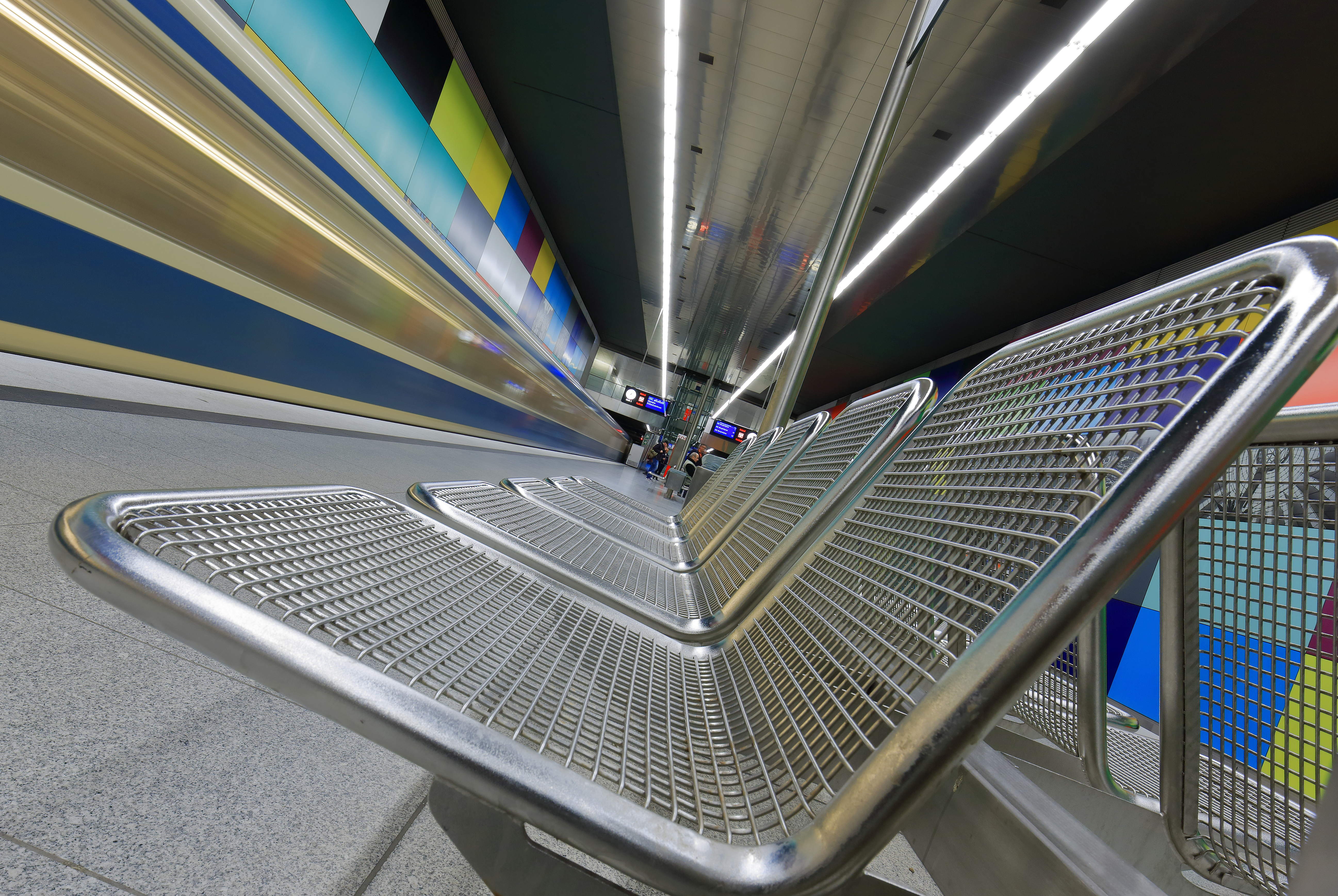 Metallic chairs on the platform level of Munich subway station Georg-Brauchle-Ring: Dutch angle.